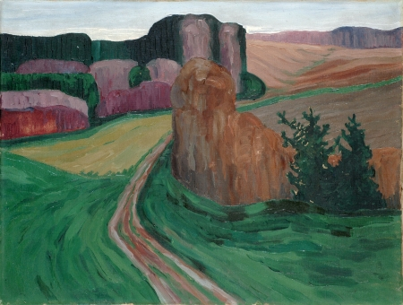 Jaan Koort: Norwegian landscape. Oil. 1907.